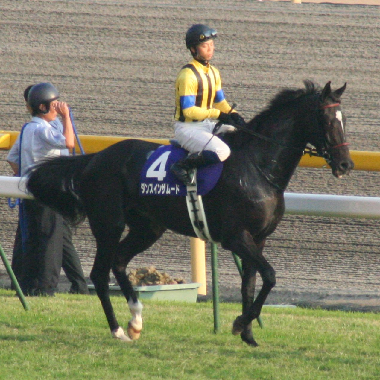 Dance in the mood(Tokyo Racecourse)